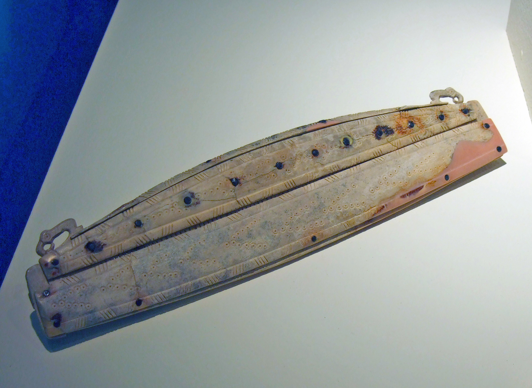 Bone comb with case from the Ödenkirche plot grave field at Keszthely-Fenékpuszta Zala County, Hungary These objects were found in Grave A of the Ödenkirche plot grave field at Keszthely-Fenékpuszta. In the 130 graves at this site, typically Germanic objects were found in addition to the characteristic objects of early Keszthely culture (6th-7th centuries). Grave A is a large, east-west oriented wooden grave chamber of a robust adult male measuring 1.88 meters (= 6' 2") tall. The grave was robbed shortly after the wooden structure collapsed, but a few important objects including this comb and case survived. Photographed while on display from 22 August 2008 to 11 January 2009 in the exhibition "Die Langobarden. Das Ende der Völkerwanderung" at the Rheinisches LandesMuseum Bonn. On loan from the Balatoni Múzeum Keszthely.